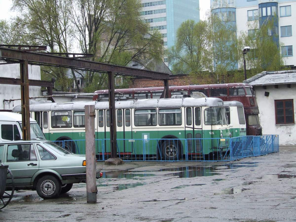 An ex-Warsaw, ex-St. Gallen (Switzerland) trolleybus and passenger trailer, parked next to a double-deck motorbus, at the Warsaw Museum of Industry. The trolleybus was originally St. Gallen No. 126, a 1957/58 Saurer.